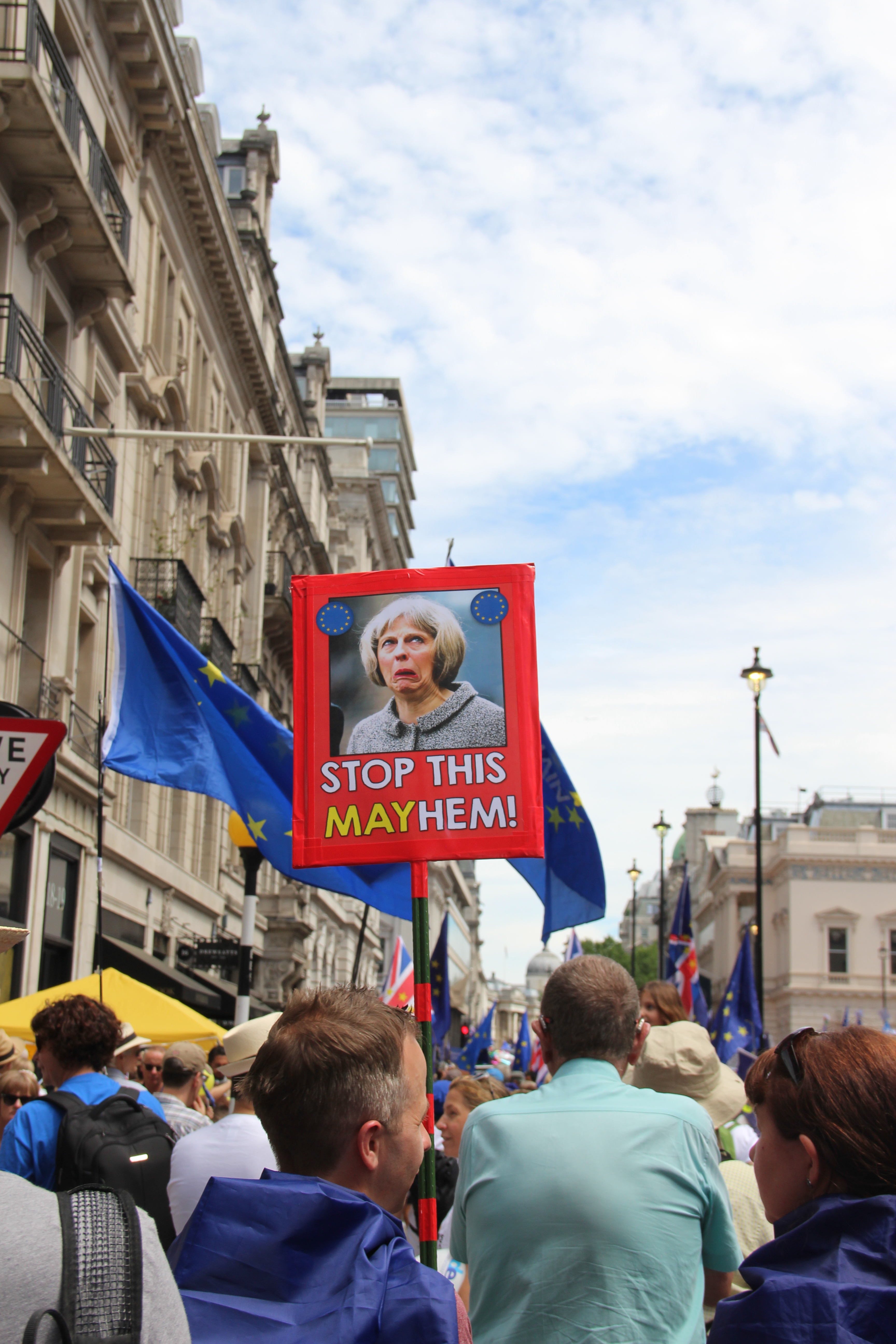 A photo of the People's Vote March in London, 23rd June 2018.